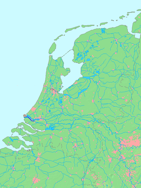 Location of a waterway (river/canal) in the Netherlends